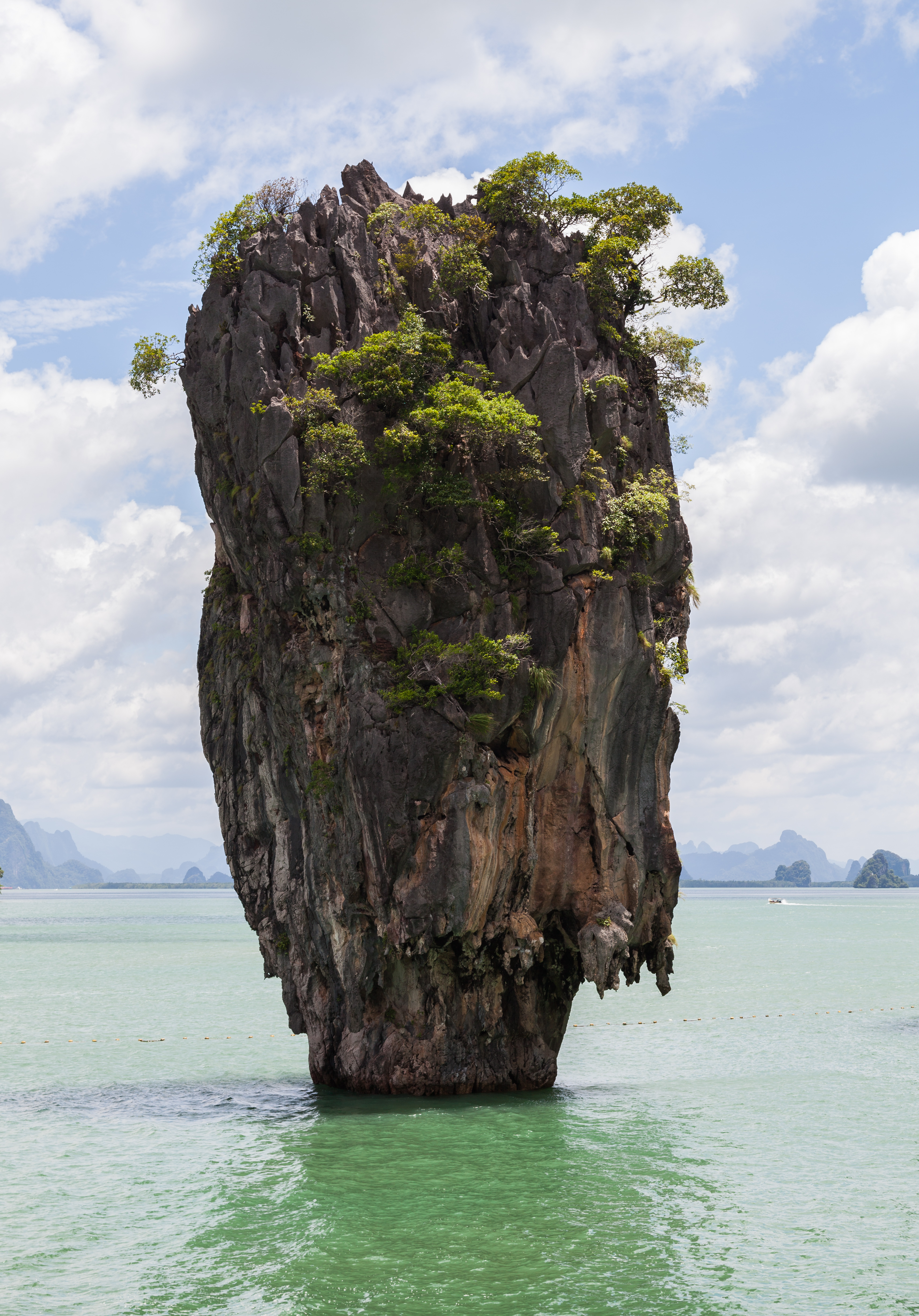 Tapu Island, Phuket, Thailand